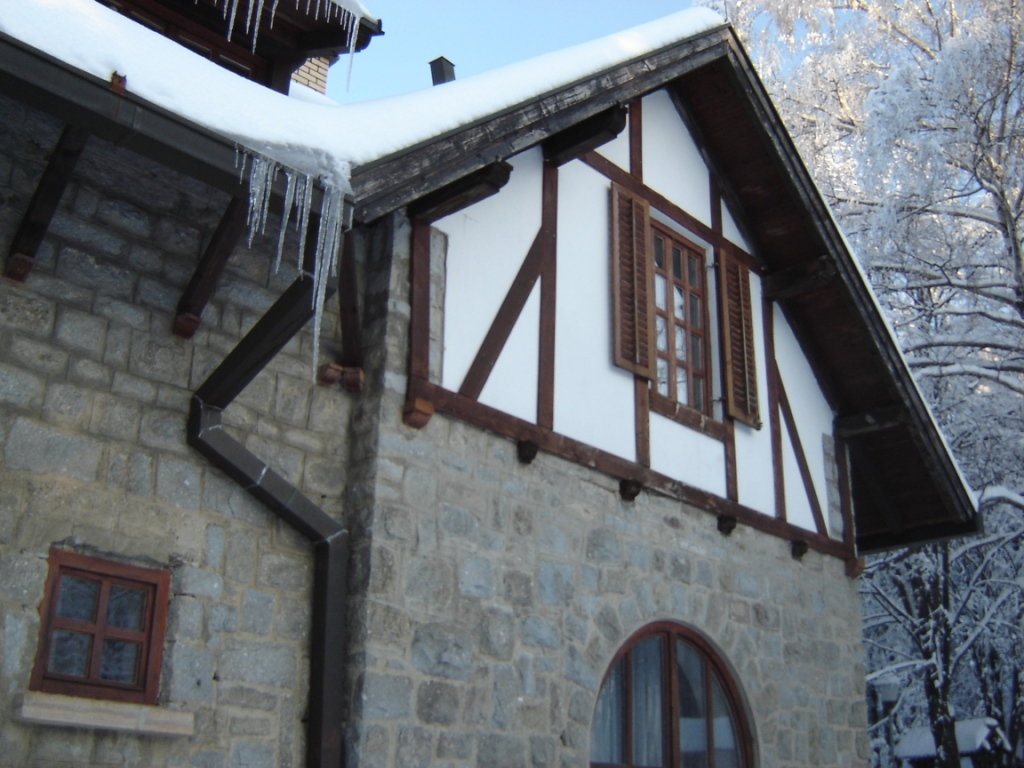 Traditional Serbian architecture — the first floor is made of stone and the second floor of... whatever that is. "Forrest house" in Rudnik mountains